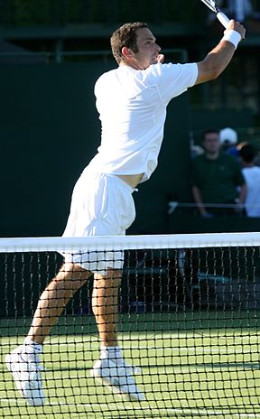 Scott Lipsky and Eric Butorac (unseen) against Mariusz Fyrstenberg and Marcin Matkowski in the 2009 Wimbledon Championships first round